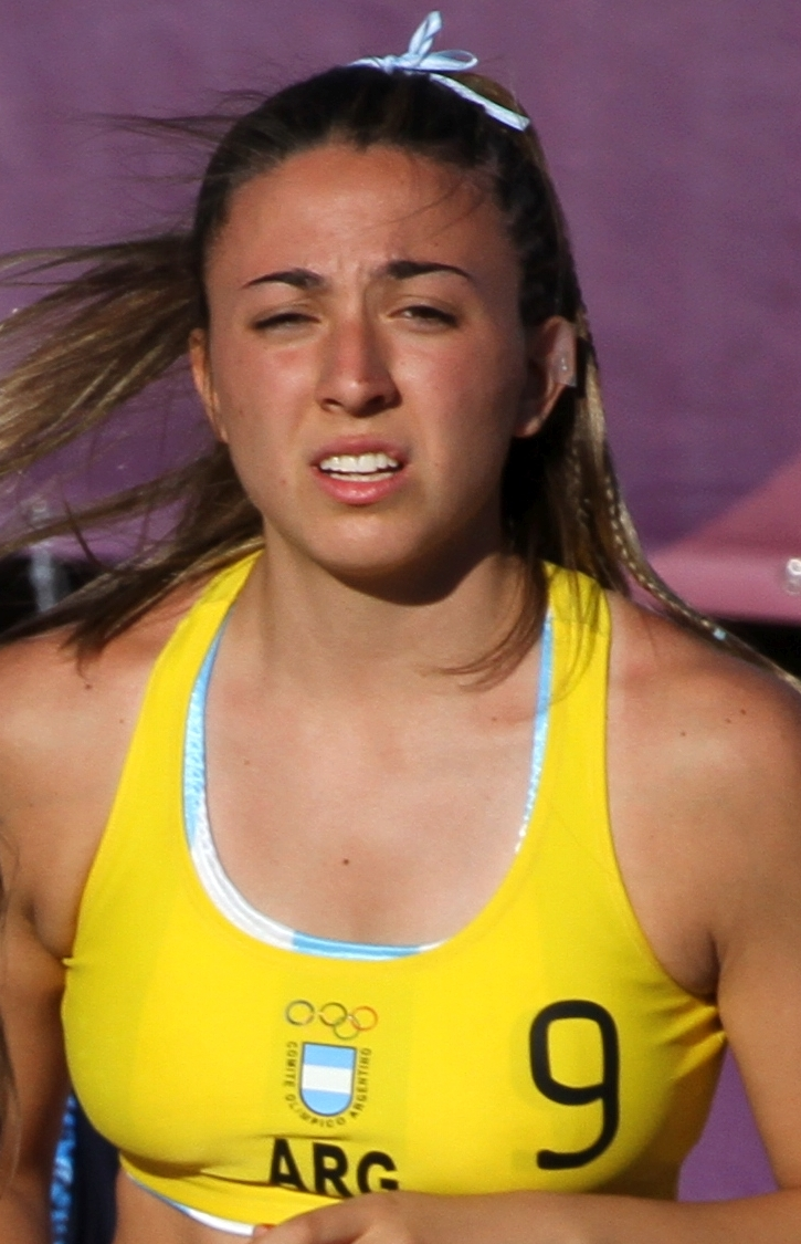 Beach handball at the 2018 Summer Youth Olympics at 9 October 2018 – Girls Preliminary Round Group B – Argentina-Hing Kong 2:0